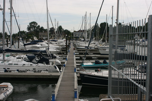 Moody's jetty One of the jetties at Moody's boatyard, Swanwick.